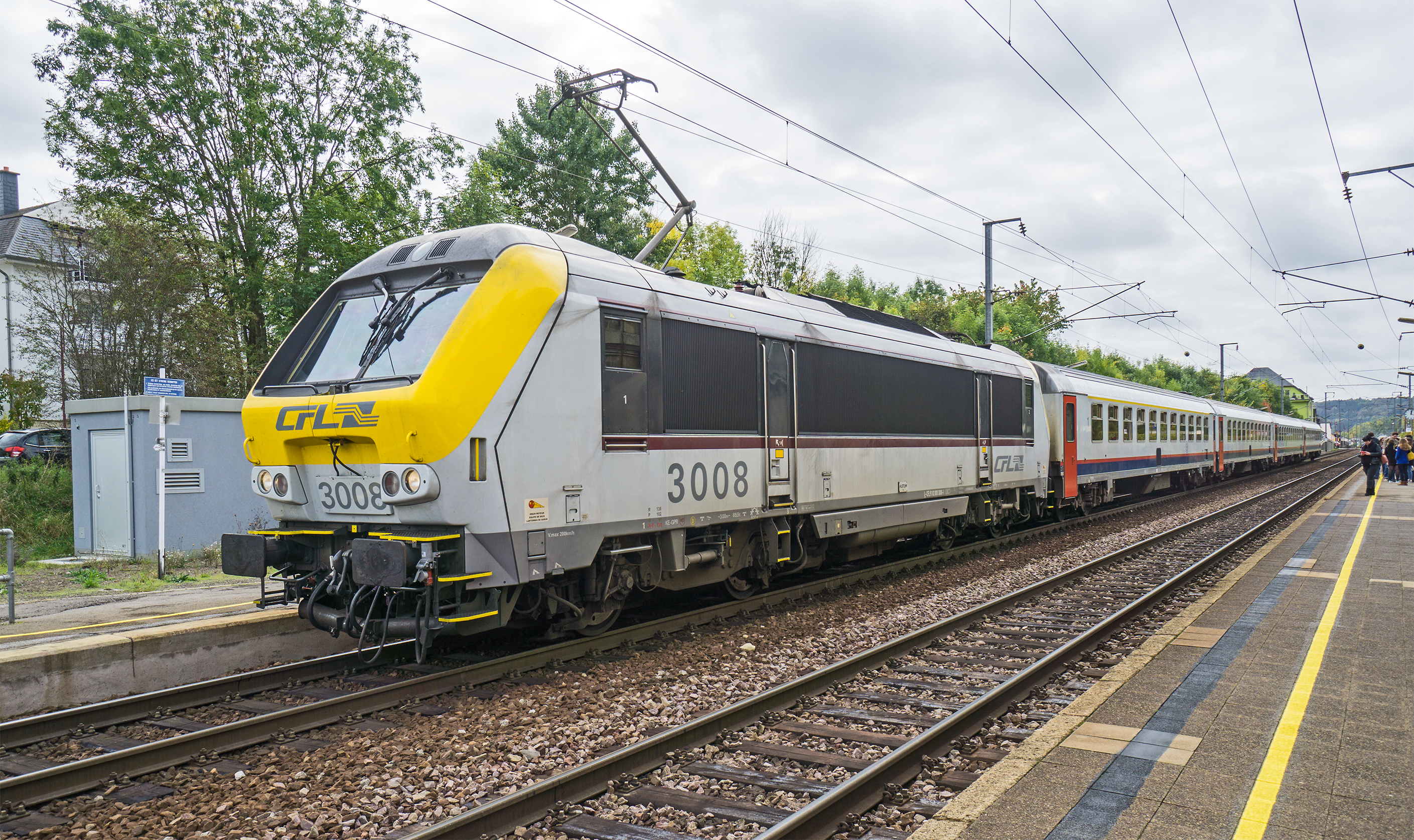 CFL 3008 at Walferdange train station